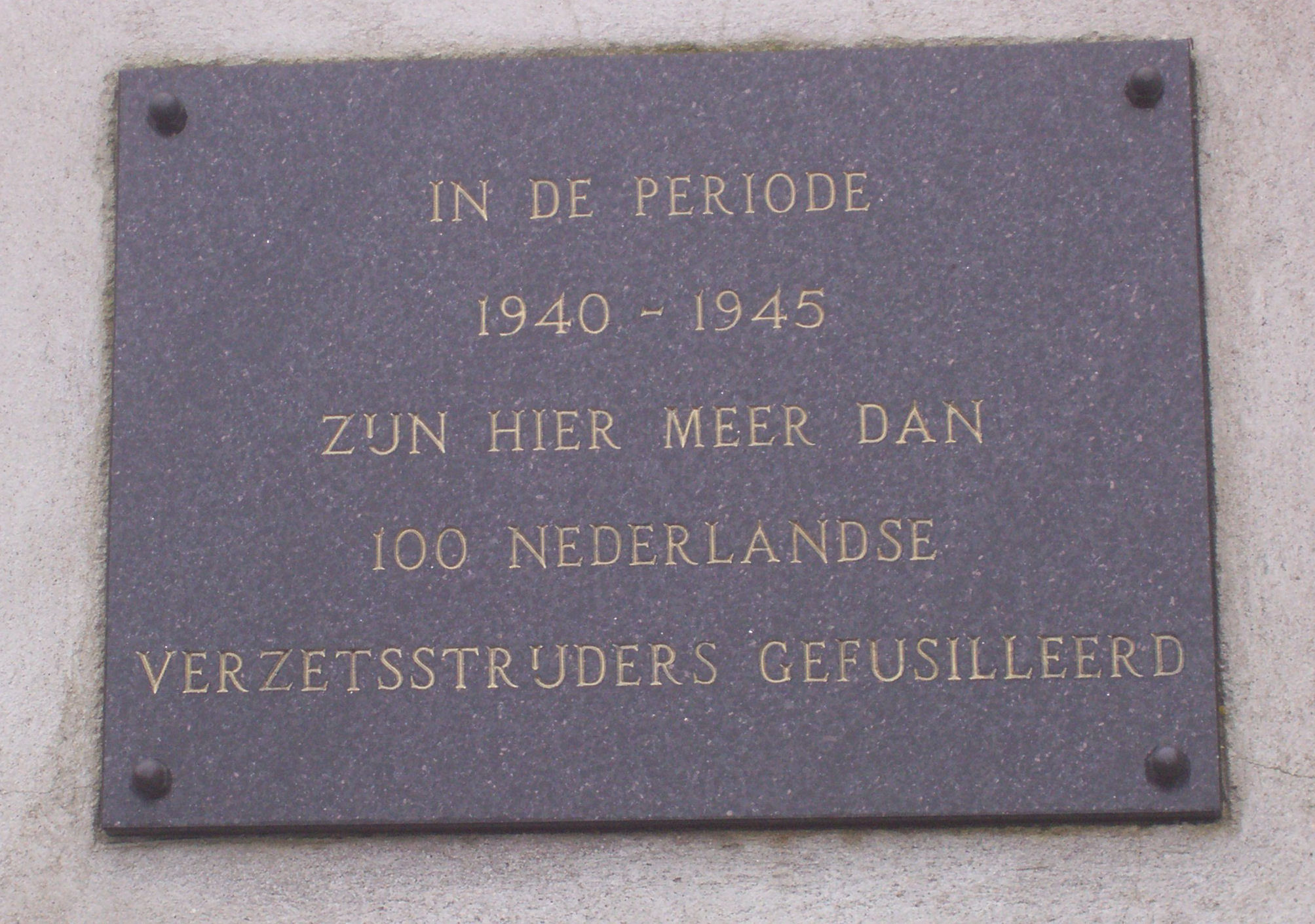 Commemorative plaque for Dutch resistance fighters who were executed in Sachenhausen. It says, in